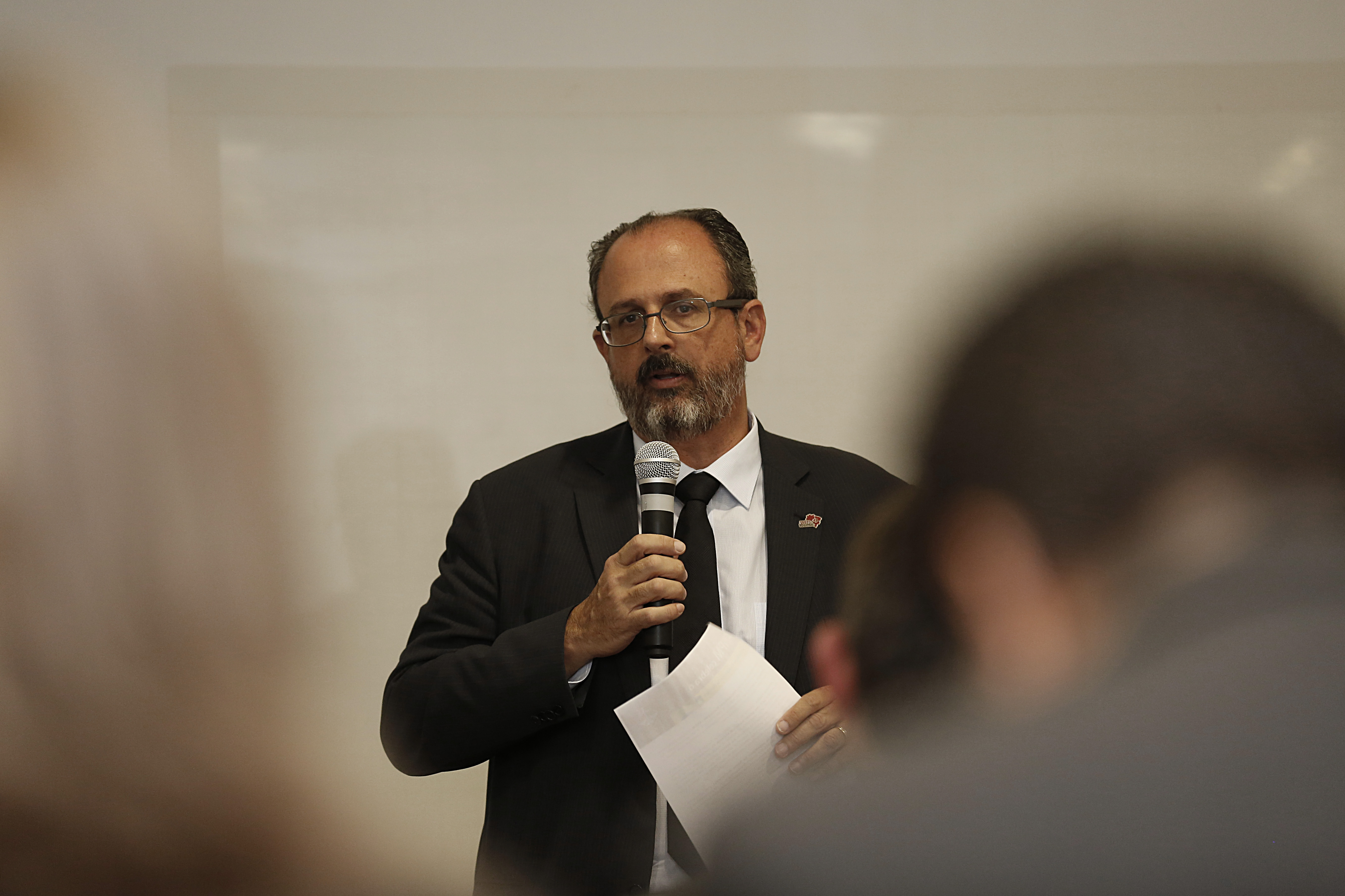 Carlos Figueiredo Mourão